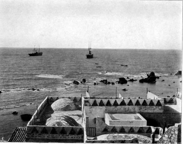 Jaffa 1912